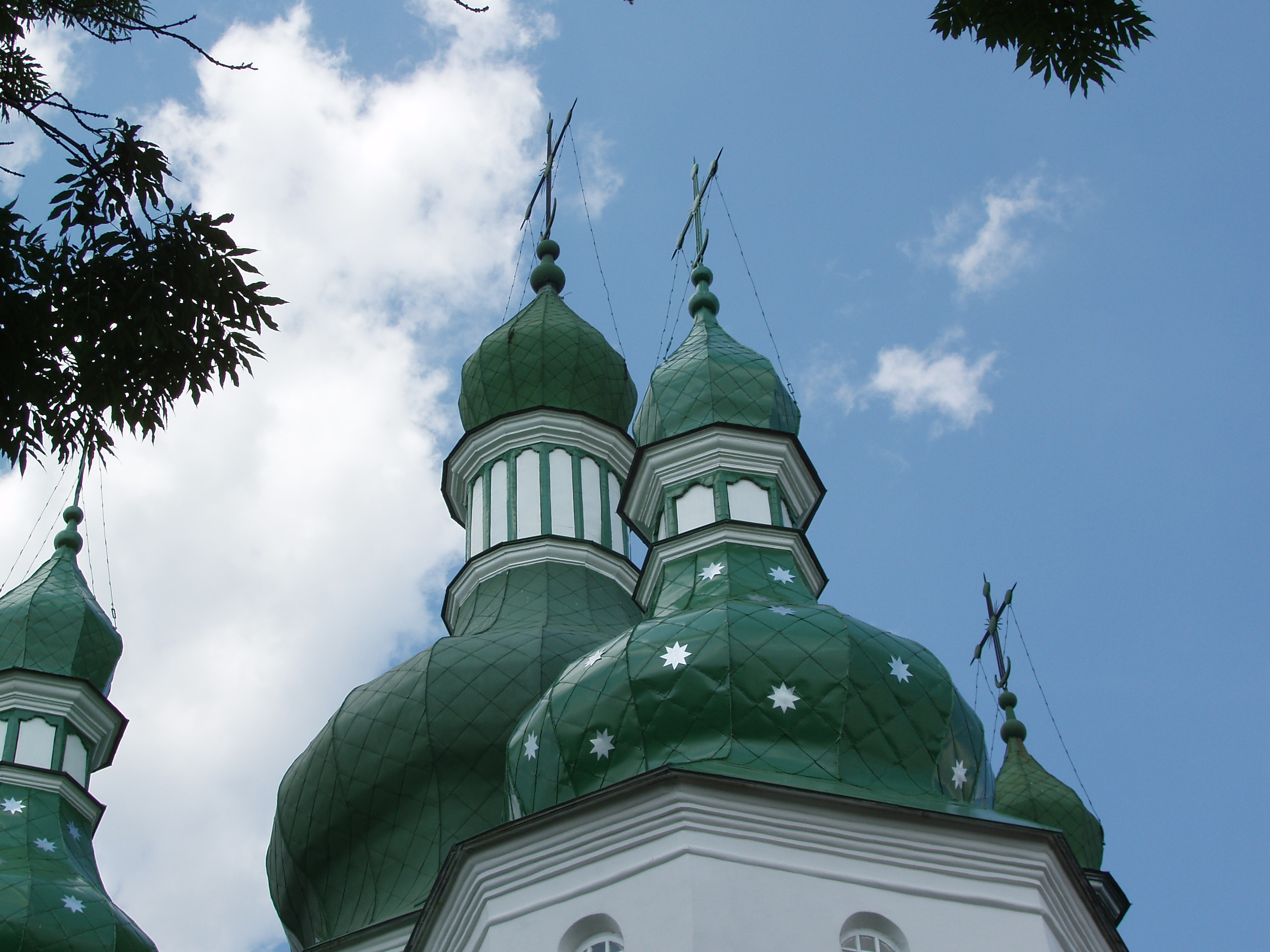 Church in Pryluky, Ukraine